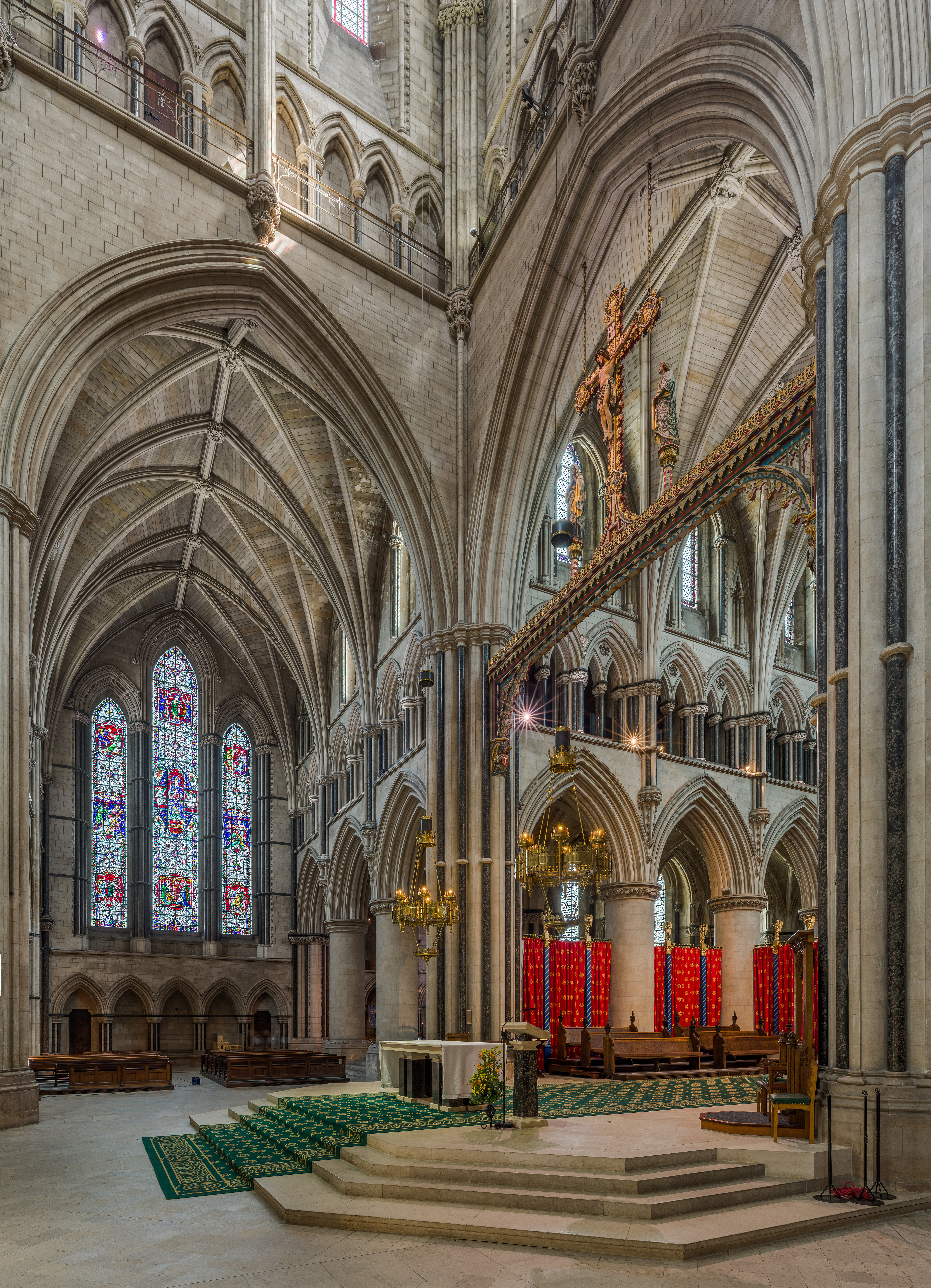 The view looking north east towards the sanctuary in St John the Baptist Cathedral, Norwich in Norfolk, England.